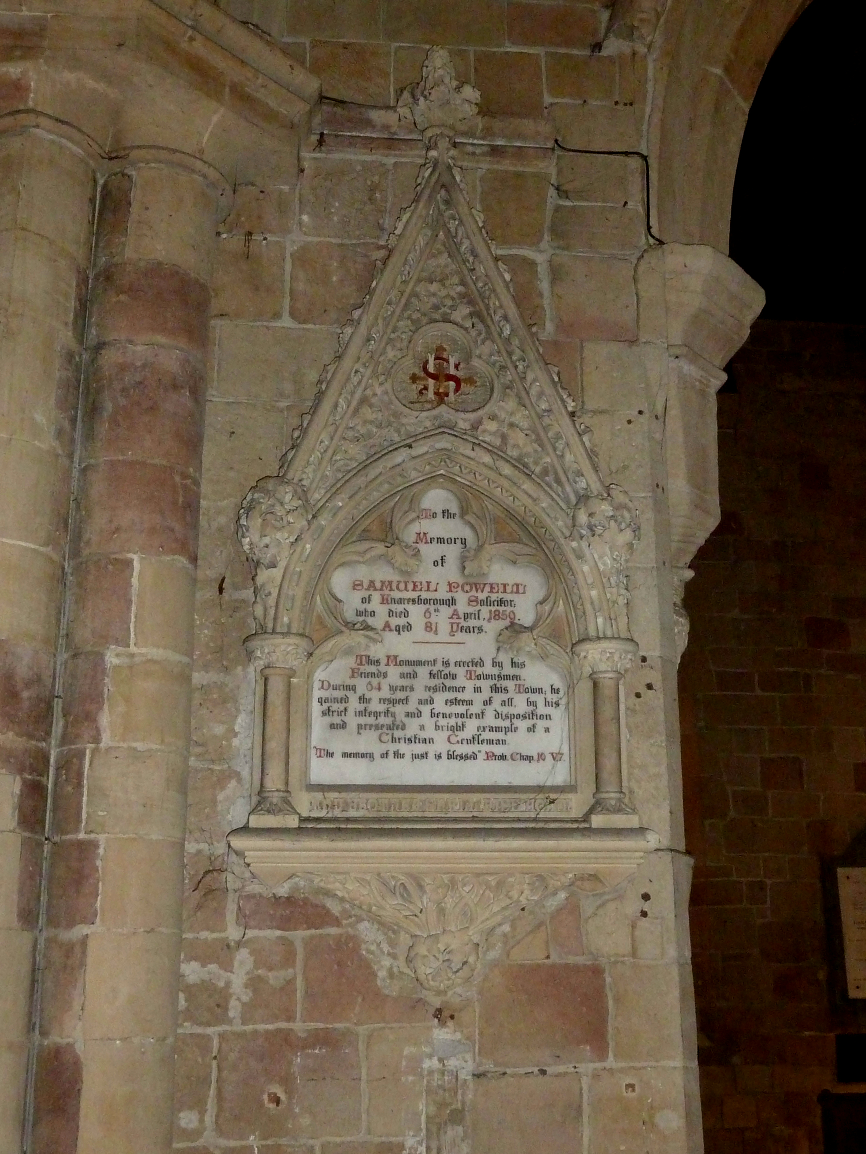 Memorial to Knaresborough solicitor Samuel Powell (1778-1859), in St John the Baptist church, Knaresborough, North Yorkshire, England. Carving by Catherine Mawer. The IHS symbol was derived originally from the first three letters of Jesus' name in Greek, but is usually translated as "Christ the Redeemer".